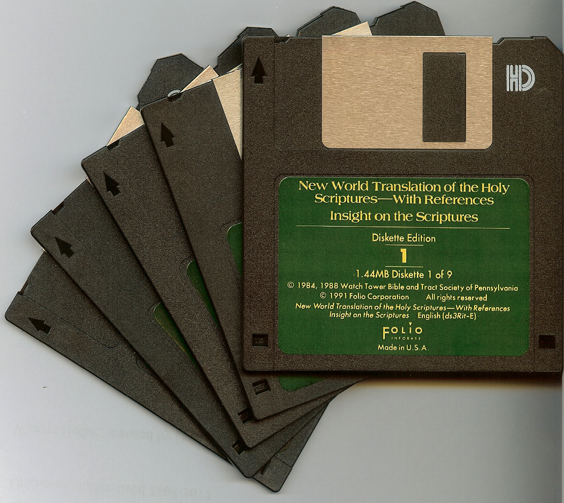 At 1993, New World Translation of the Holy Scriptures—With References/Insight on the Scriptures was released containing the New World Translation and the two volumes of Insight on the Scriptures, on 1.44 MB diskettes.